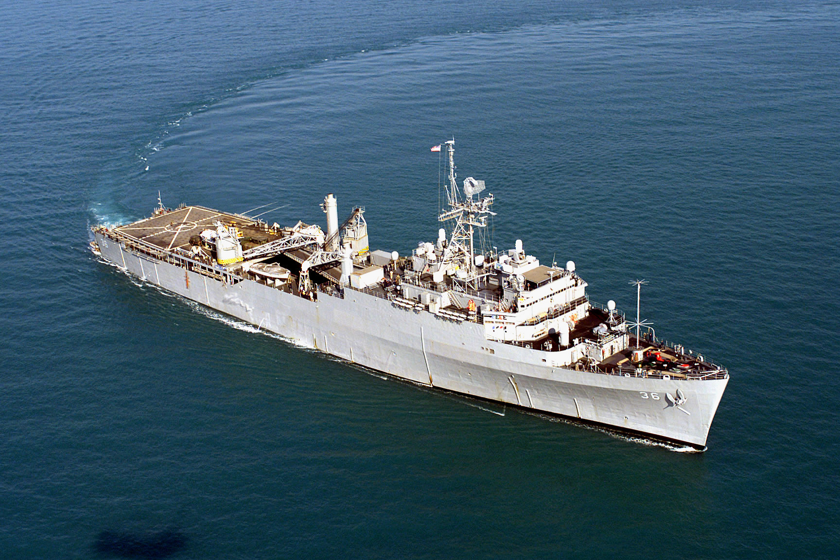 At sea aboard USS Anchorage (LSD 36) Sep. 7, 2000) -- An aerial view of the amphibious dock landing ship, sails the waters off Darwin, Australia while on routine deployment to the Western Pacific. U.S. Navy Photo by Photographer’s Mate 1st Class David Miller. (RELEASED)